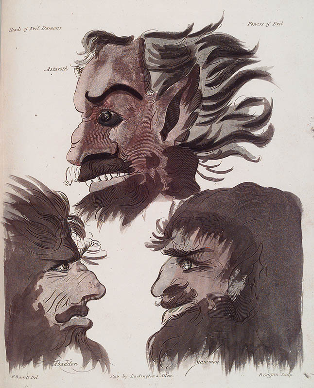 Demons "Astaroth", "Abaddon" and "Mammon" from Francis Barrett's book "The Magus" (1801) under the heading "Heads of Evil Demons", "Powers of Evil"